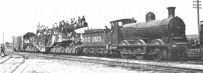 Photograph of British 14-inch railway gun "Boche Buster" with crew, behind its locomotive, France, 1918. Locomotive is a "McIntosh" 0-6-0 of the Belgian State Railway (État-Belge), later SNCB type 30.